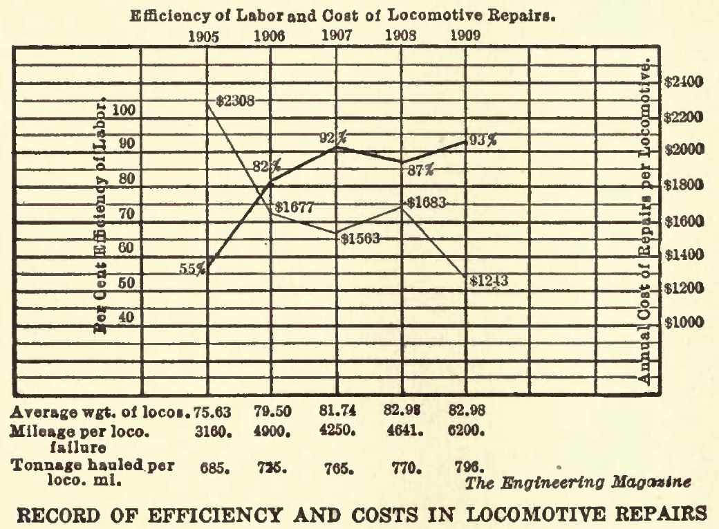 Record of efficiency and costs in locomotive repairs, 1905-09 by Emerson, 1912